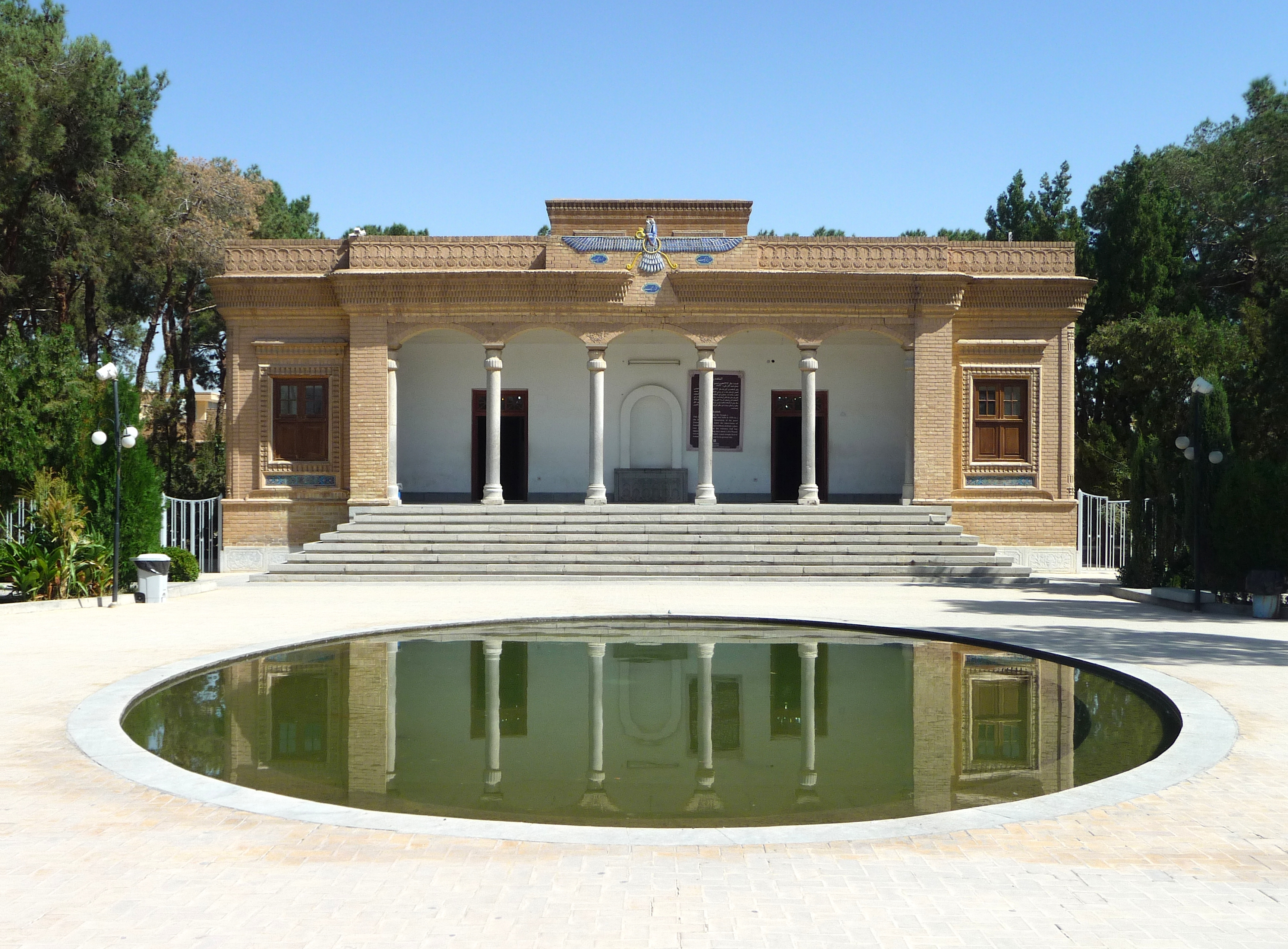 The Fire Temple in Yazd (Yazd, Iran).